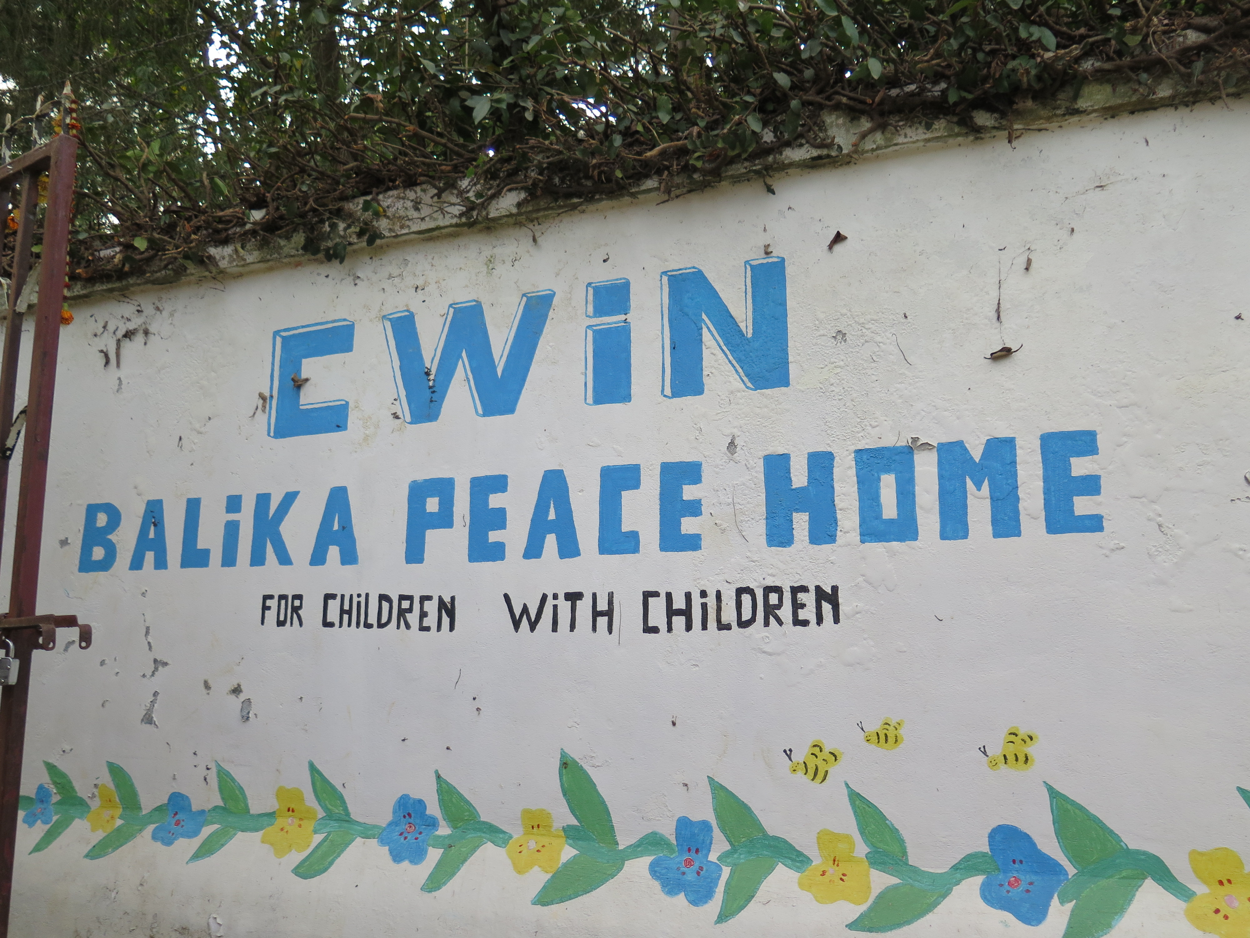 CWIN Balika Peace Home